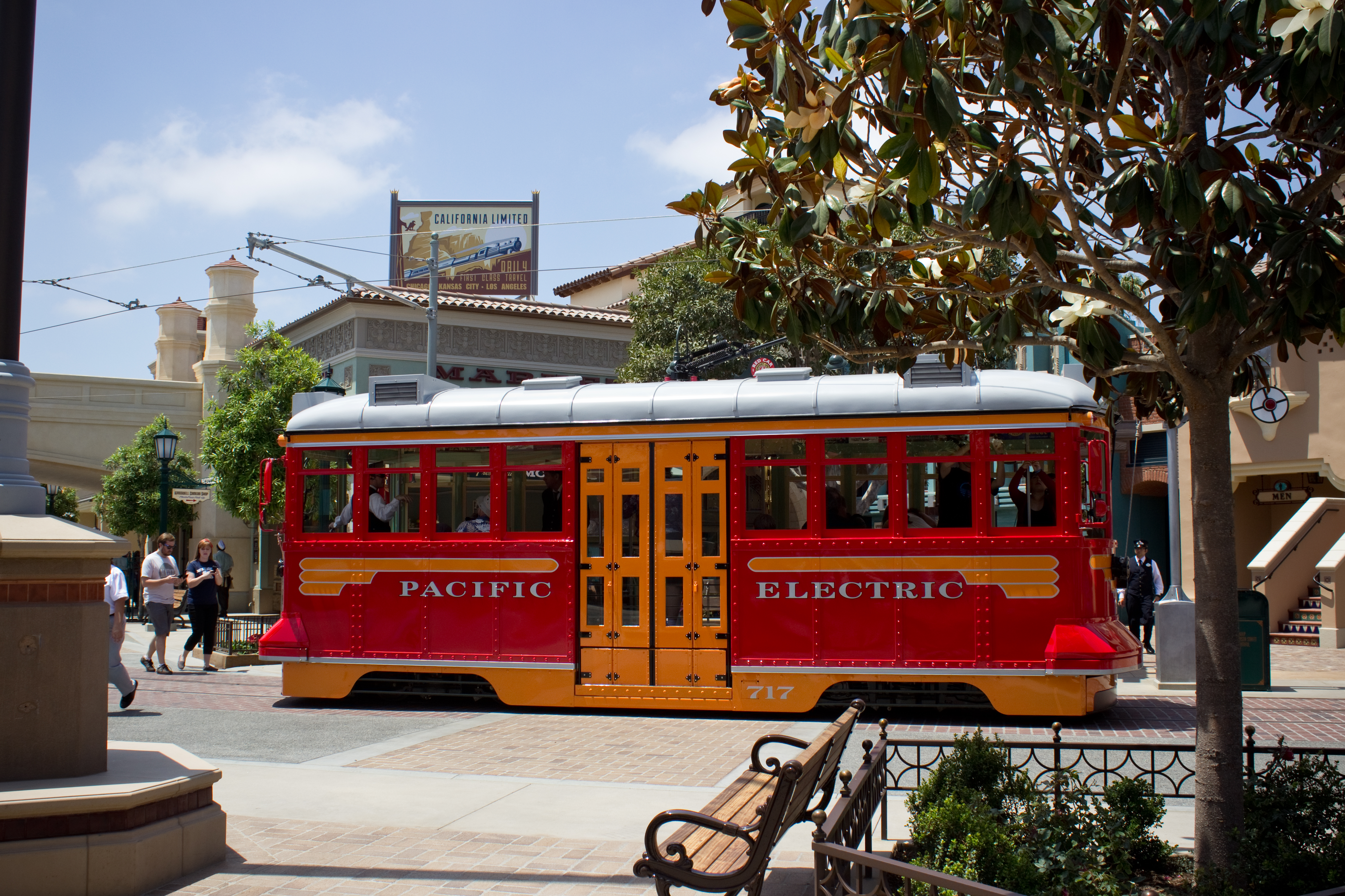 The lovely Red Car Trolley on the brand new and absolutely beautiful Buena Vista Street at Disney California Adventure.